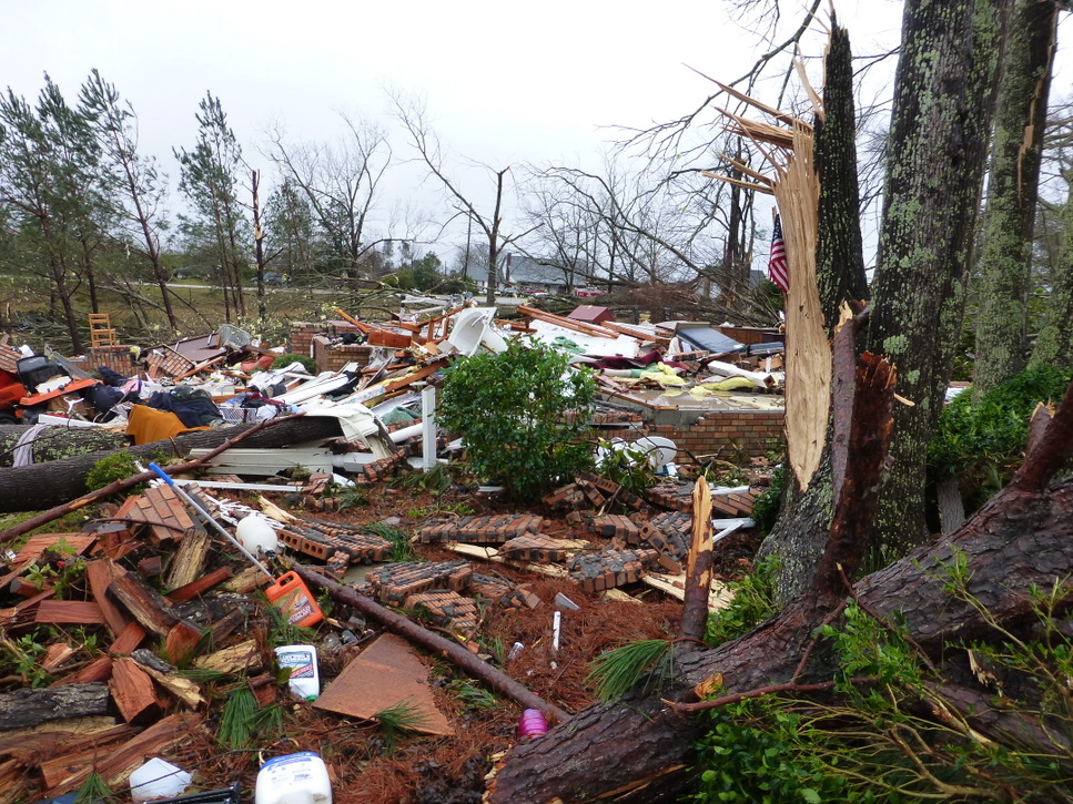 Remains of a house that was completely leveled by the 2013 Hattiesburg, Mississippi tornado.